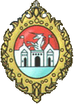 Coat of arms of Zalischyky.